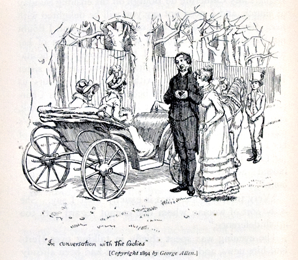 "In conversation with the ladies" - Mr. Collins and Charlotte conversing with Anne de Bourgh and the old Mrs Jenkinson. Austen, Jane. Pride and Prejudice. London: George Allen, 1894, page 198. (chapter 28)